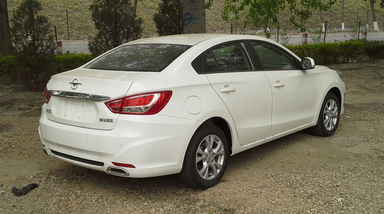 Haima M5 photographed in Beijing, China.